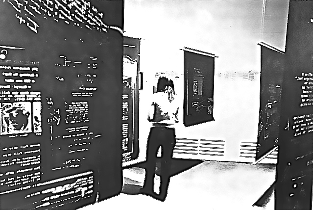 Margia Kramer 1981 “Jean Seberg, The FBI, The Media” The Museum of Modern Art Mixed Media Installation